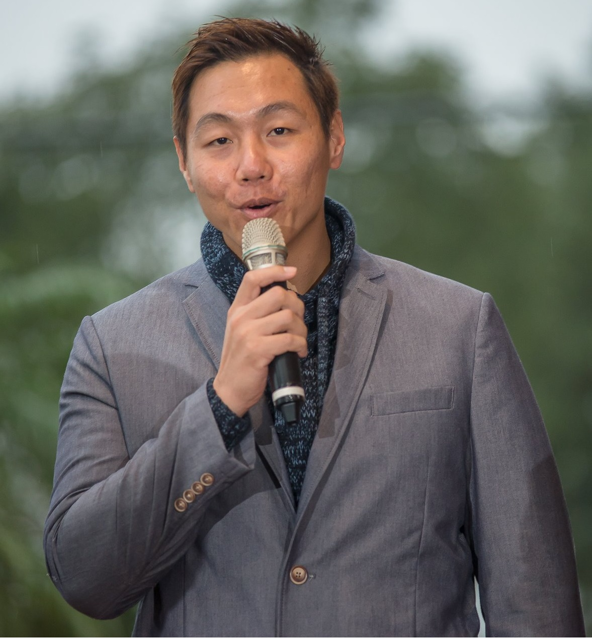 The baseball player from Taiwan.